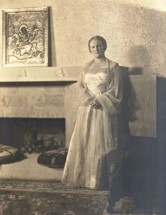 Photo of Arethia Tatarescu - Approx. 1937